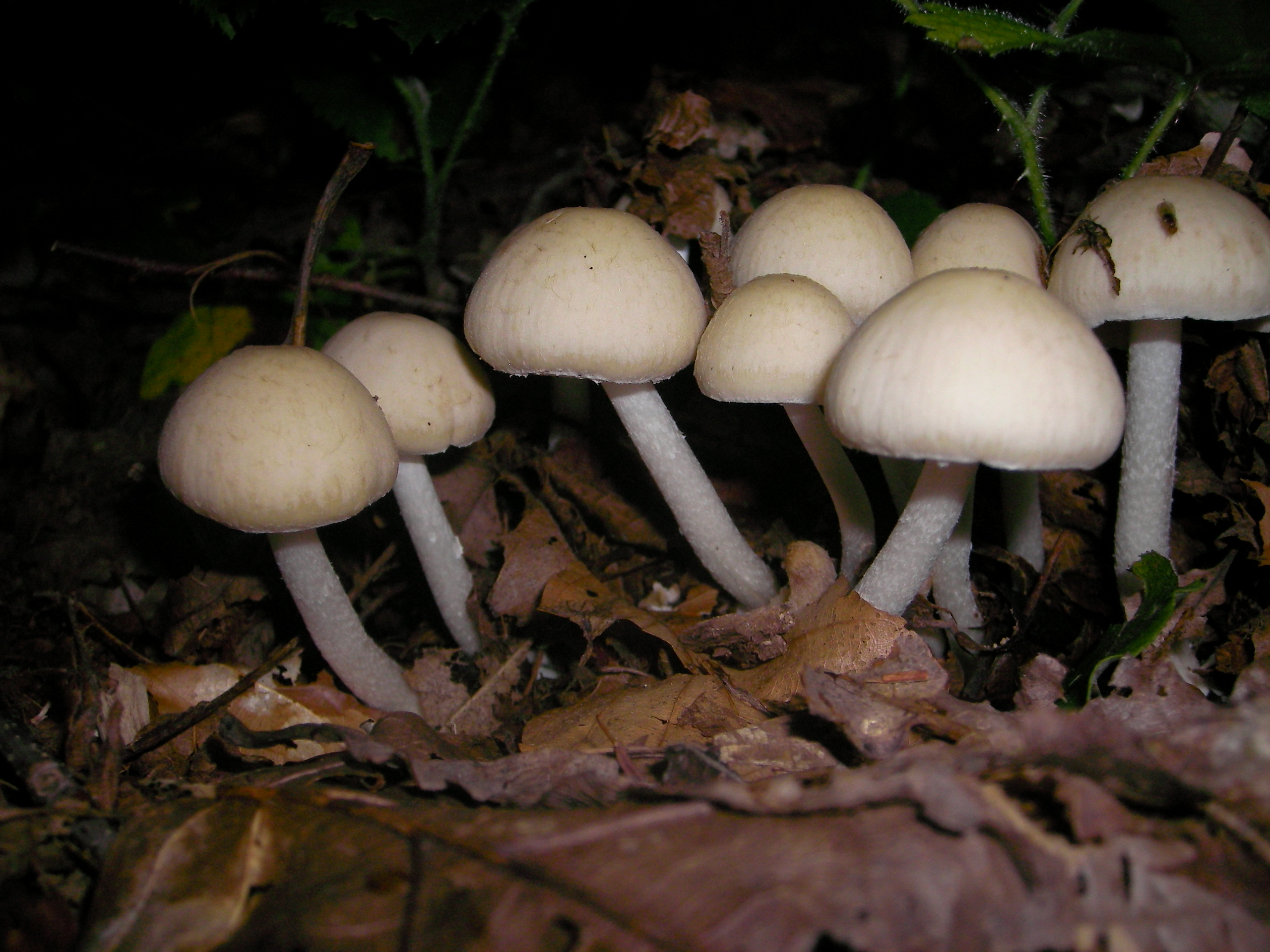 Mushroom